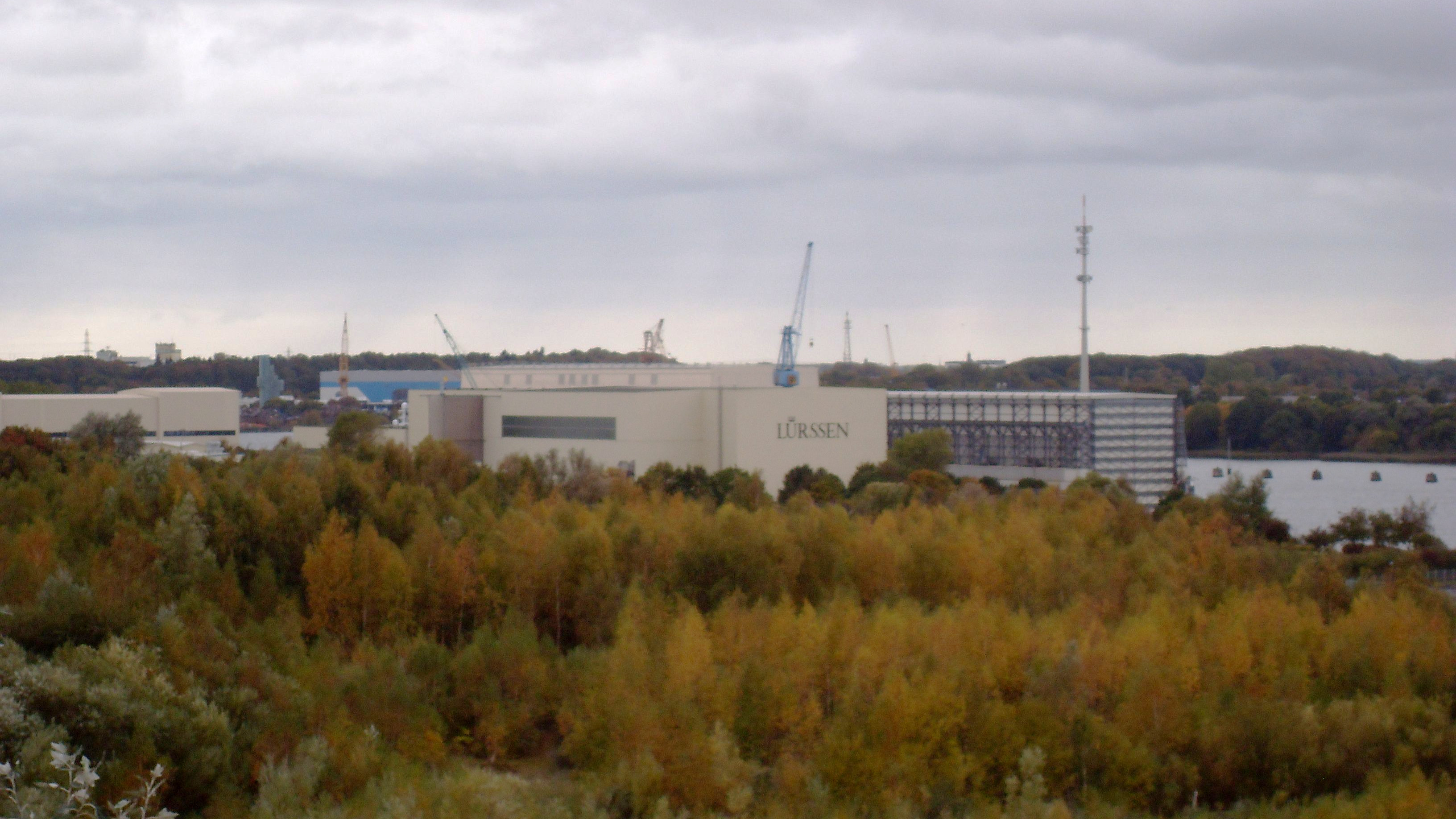 Lürssen-Werft in Schacht-Audorf, next to Rendsburg